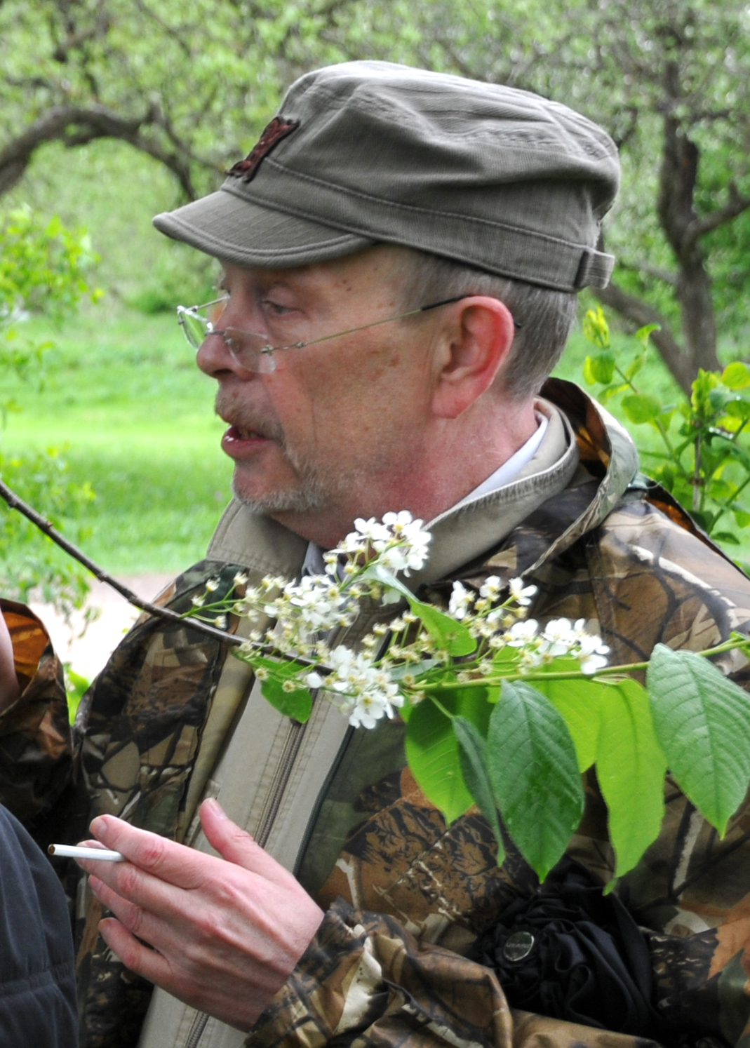 Professor Viktor Gaiduk to Yasnaya Polyana at the project "The apple orchard of Tolstoy"